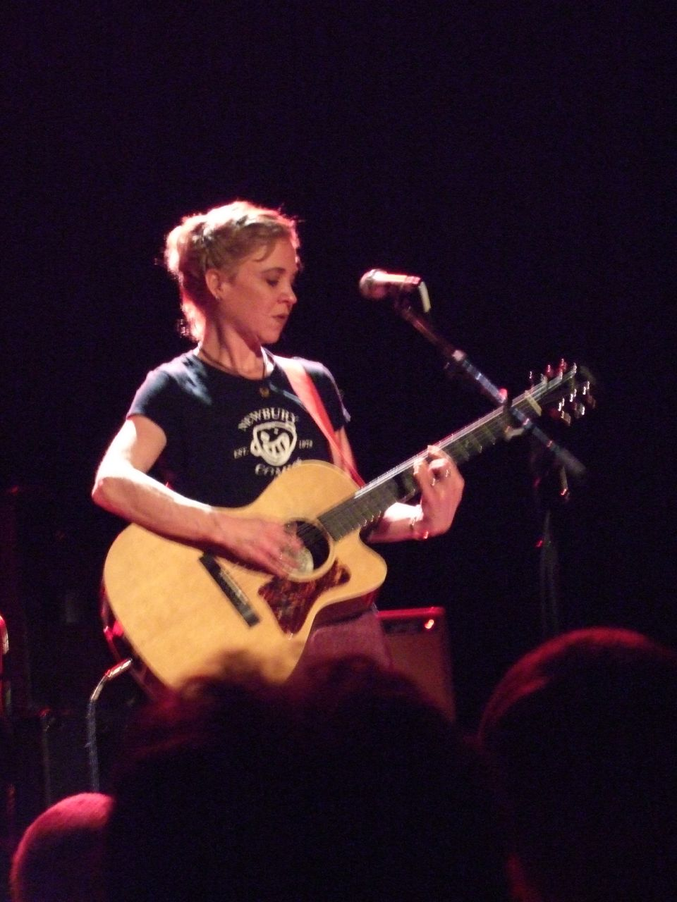 Kristin Hersh at the Bowery Ballroom, New York, NY, 2007-04-25.